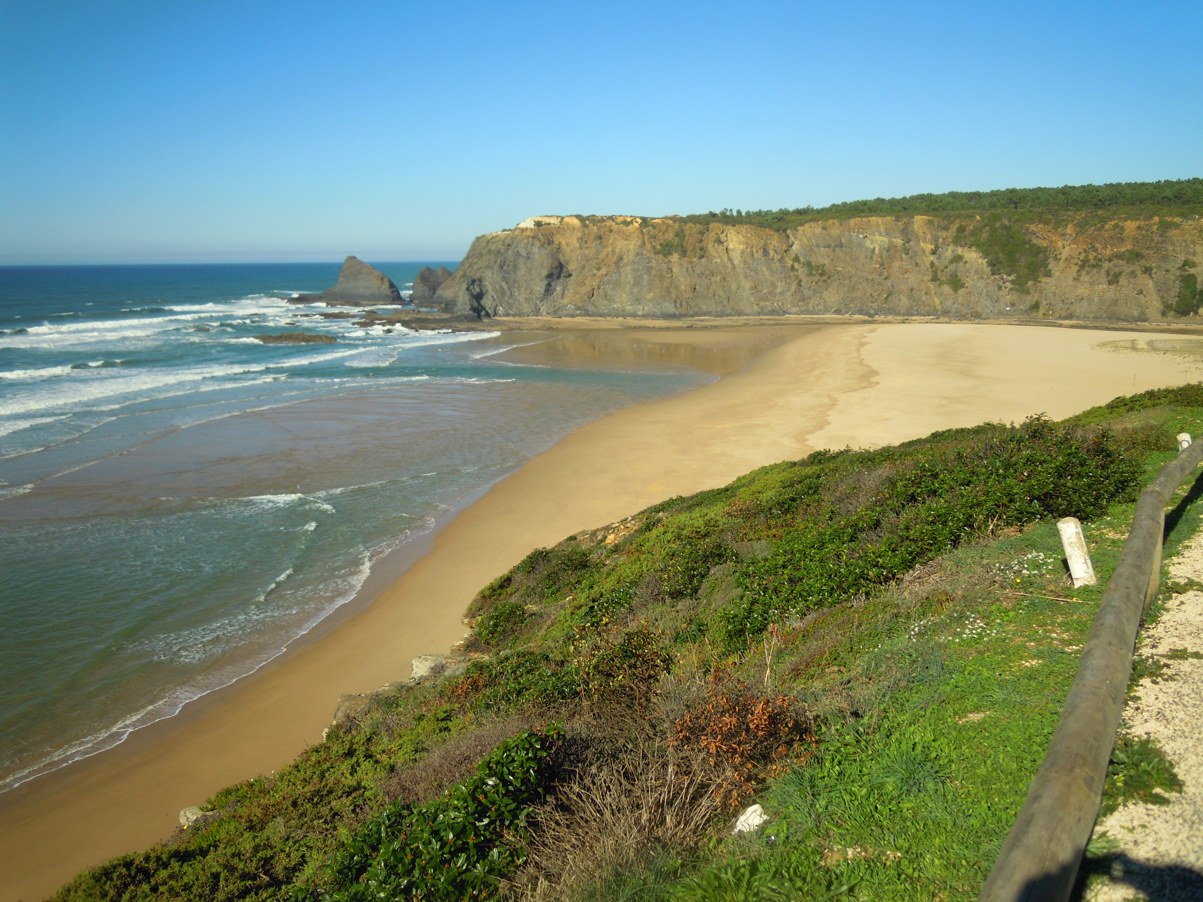 Photograph of the Praia de Odeceixe Mar, in the municipality of Aljezur, Algarve, Portugal